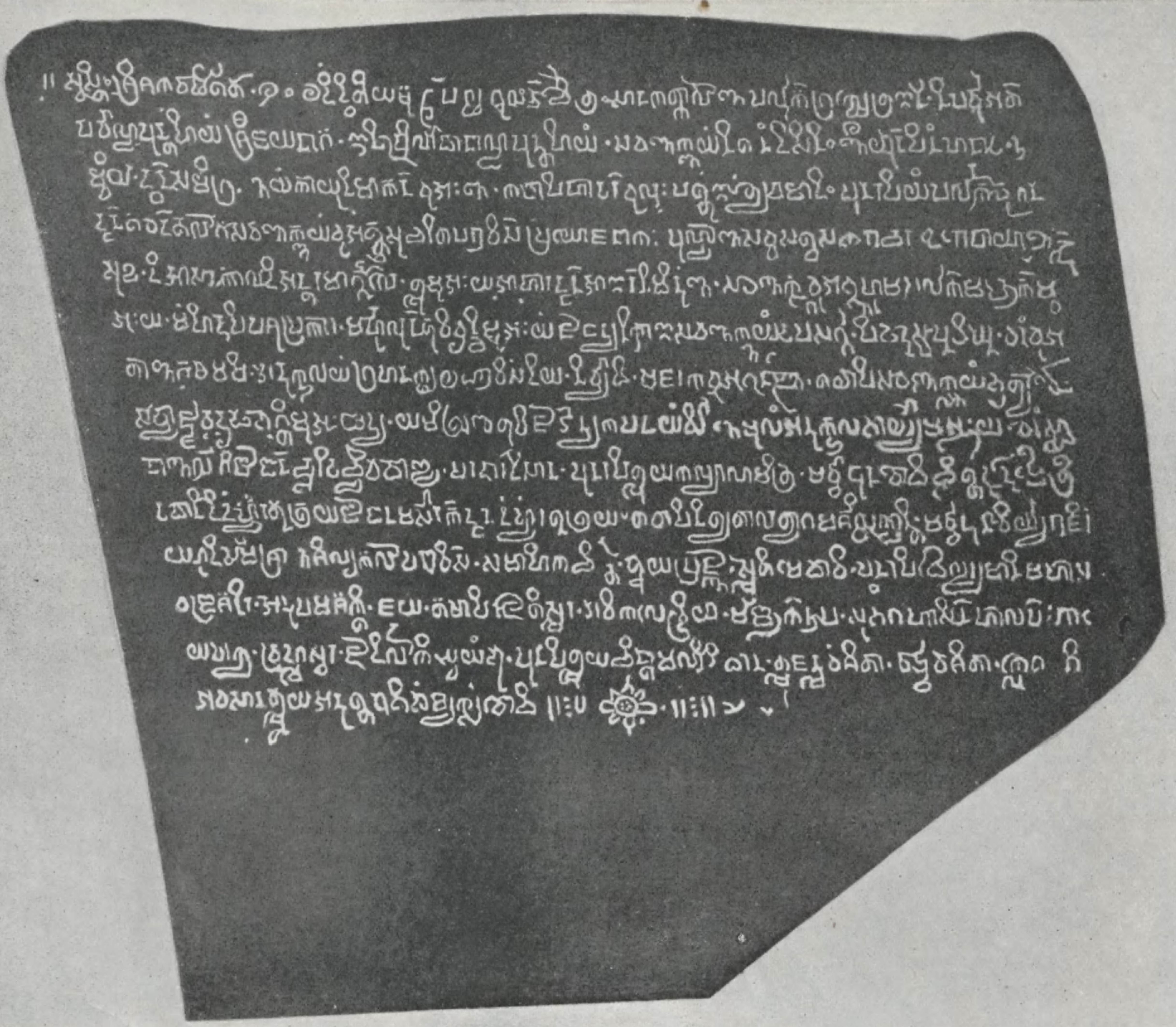 Talang Tuwo inscription from Siguntang Hill in Palembang.